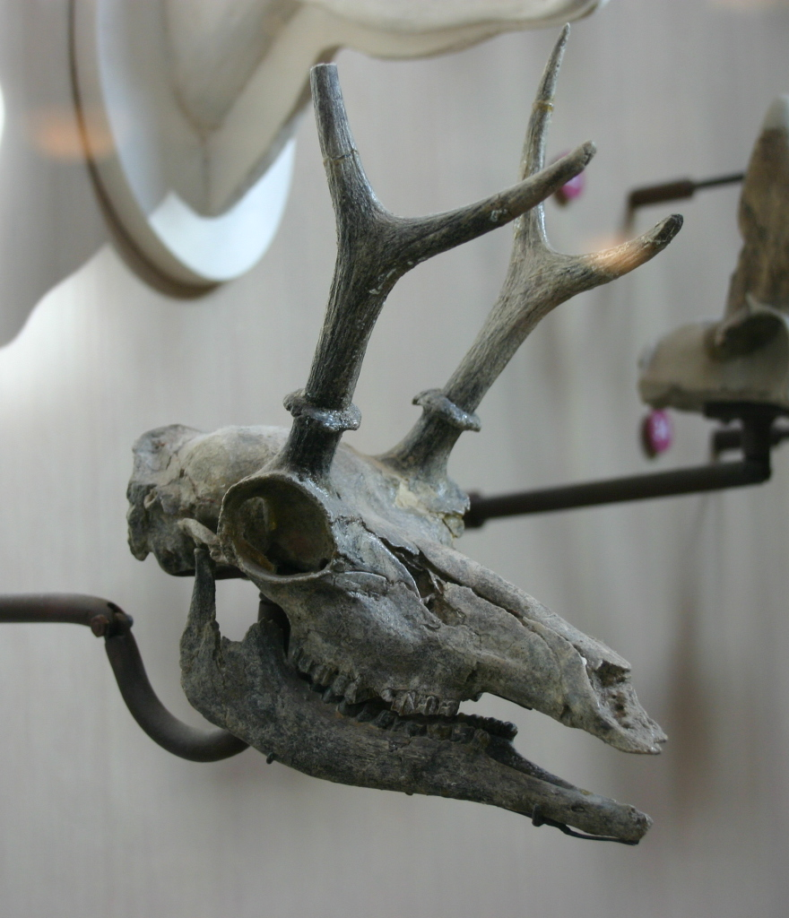 Cropped image of taxon in file name